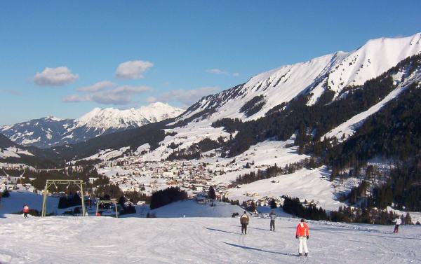 de: Kleinwalsertal Bilderbuchwetter im Winter 2005: Blick auf Riezlern vom Parsennlift (Fotograf: Dirk Schmidt 02-2005) en: Austria Kleinwalser-Valley: view from the parsennlift to riezlern (photographer: Dirk Schmidt 02-2005) licence for this picture: Creative Commons Attribution-ShareAlike 1.0 .